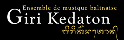 Logo de l'Ensemble de musique balinaise Giri Kedaton.